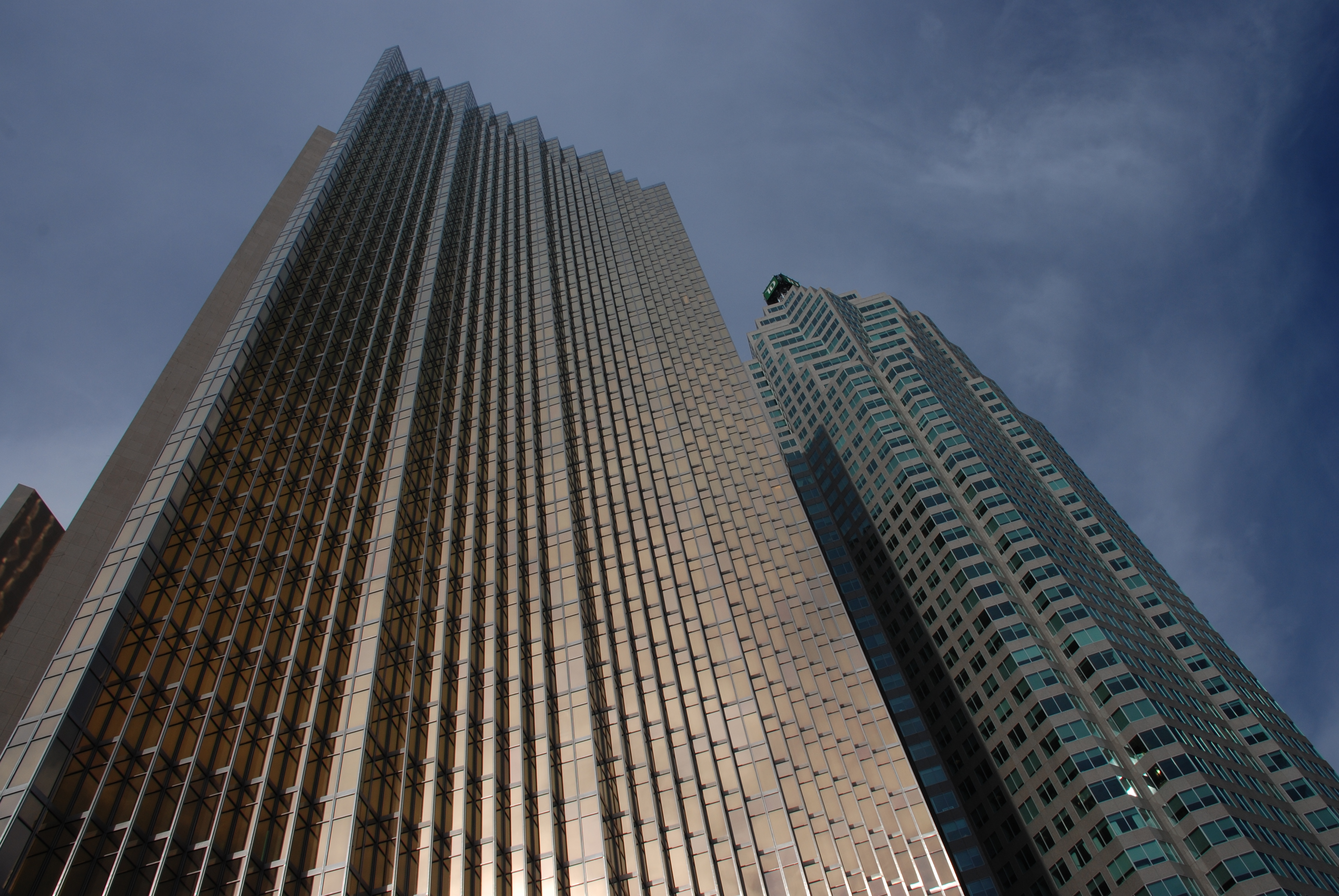 A shot from Front Street in Toronto looking up at the Royal Bank and TD Bank buildings.